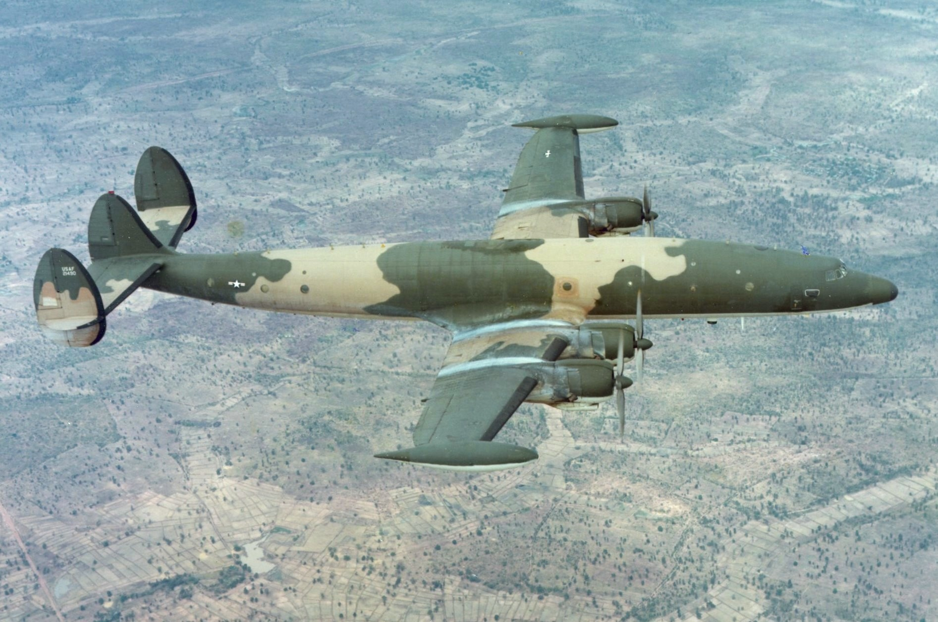 A U.S. Air Force Lockheed EC-121R Constellation of the 553rd Reconnaissance Wing over Southeast-Asia on 15 January 1969.